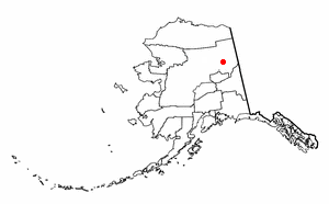 Adapted from Wikipedia's AK borough maps by Seth Ilys.